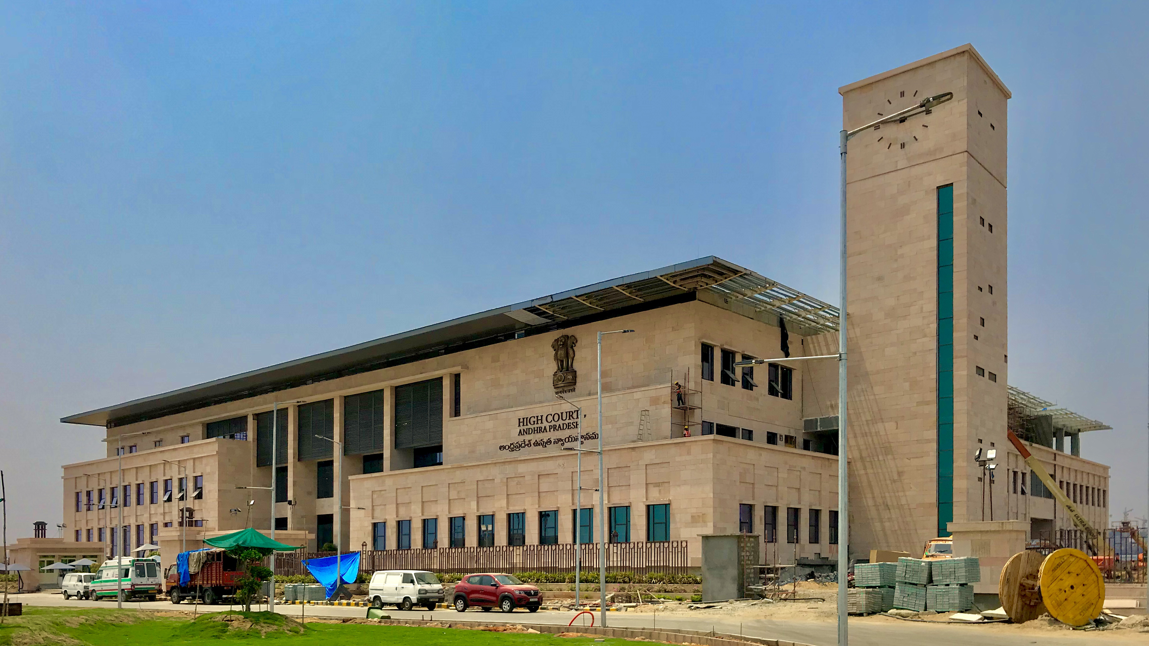 High Court of Andhra Pradesh, Amaravati (May 2019)